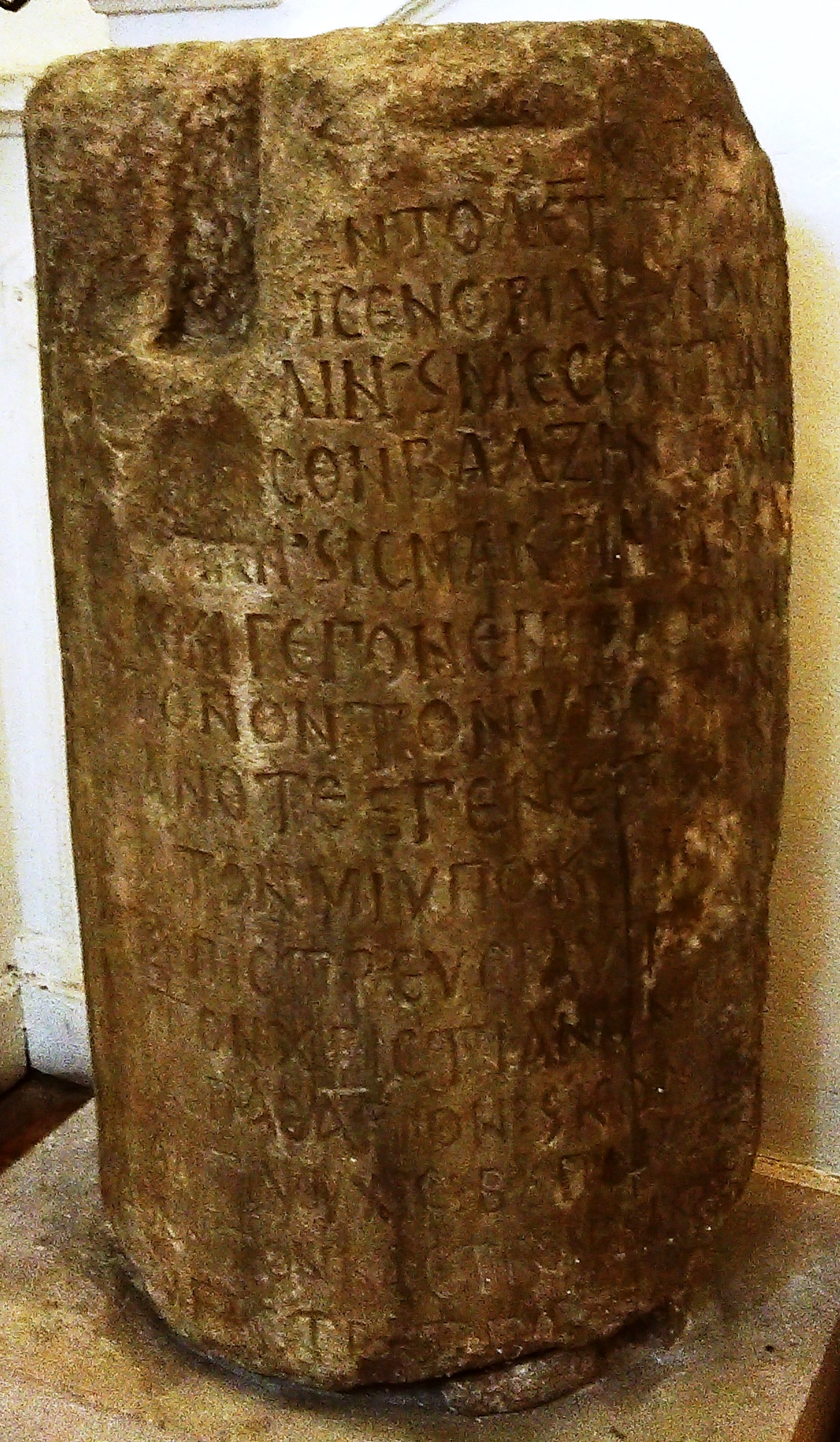 Suleymankoy inscription from right: the Bulgarian-Byzantine 30 years peace treaty, year 815